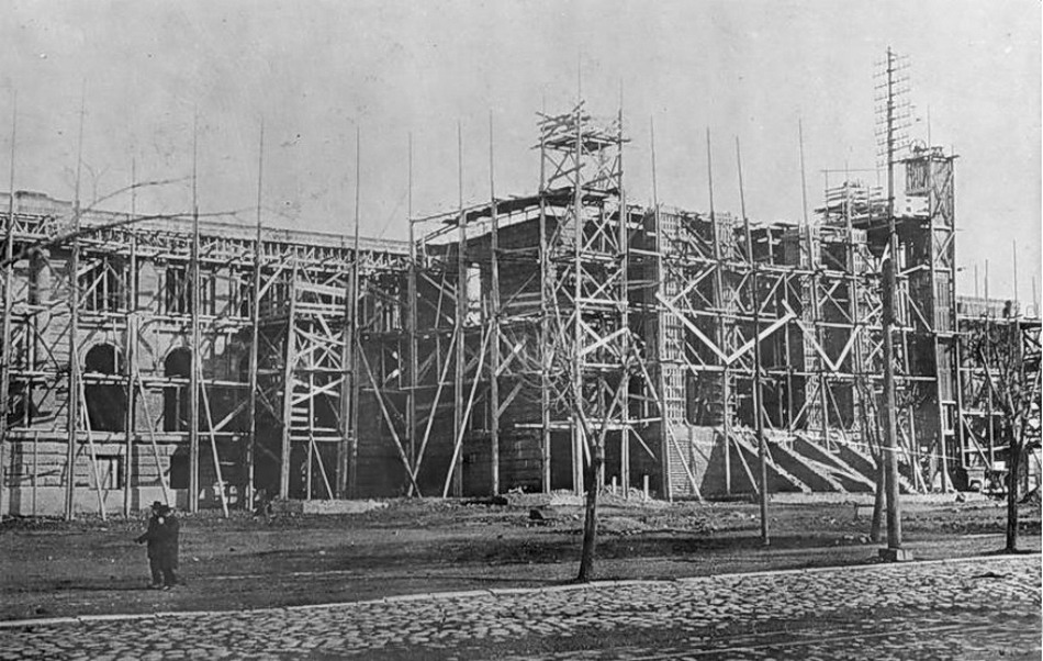 National assembly under construction